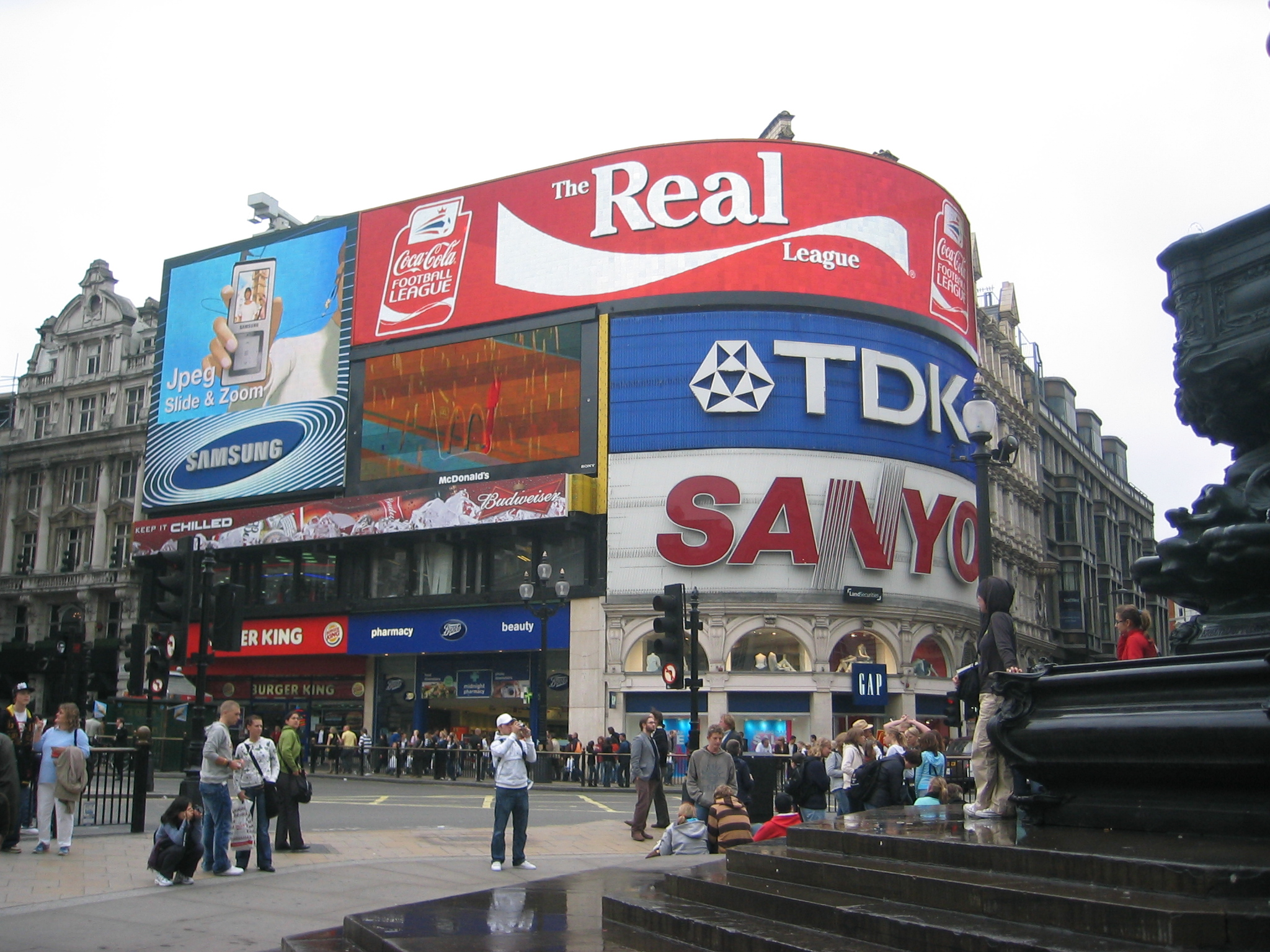 London